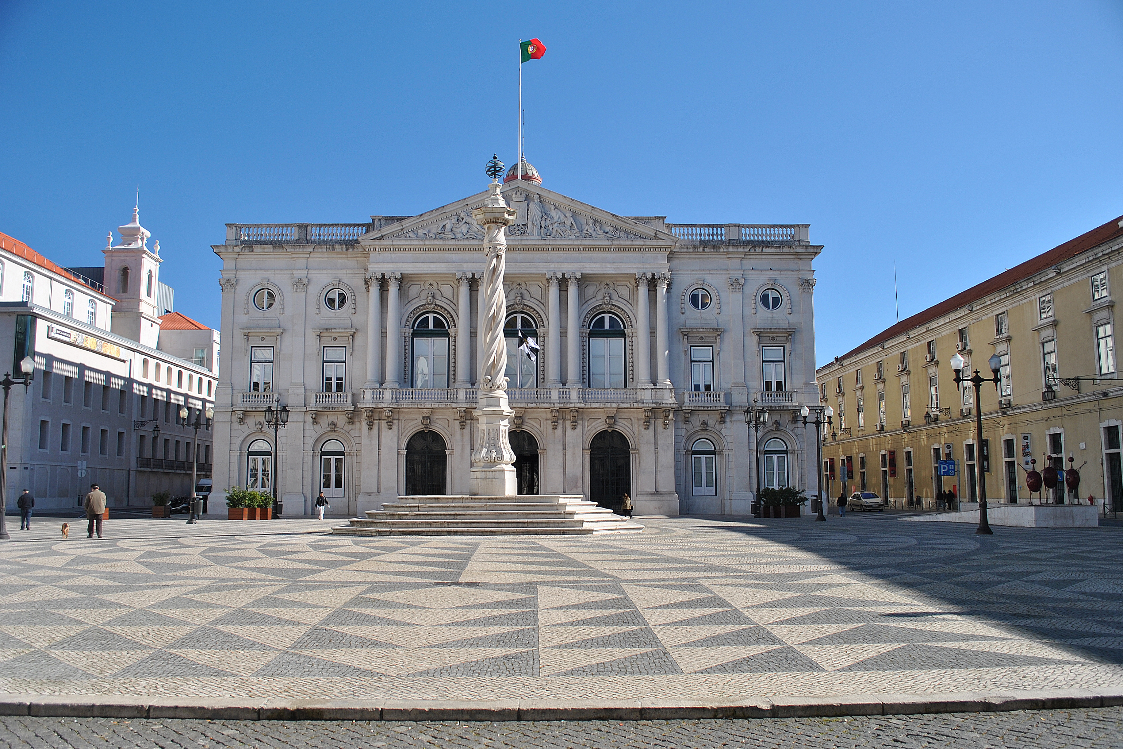 Lisbon's Municipal Square and Lisbon's Town Hall, Portugal.